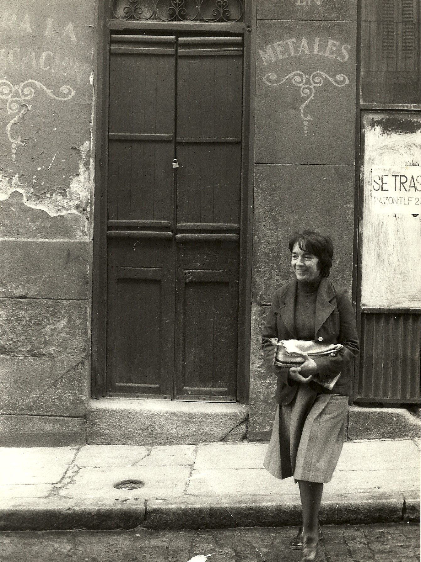 Amalia Avia walking on a Madrid's street